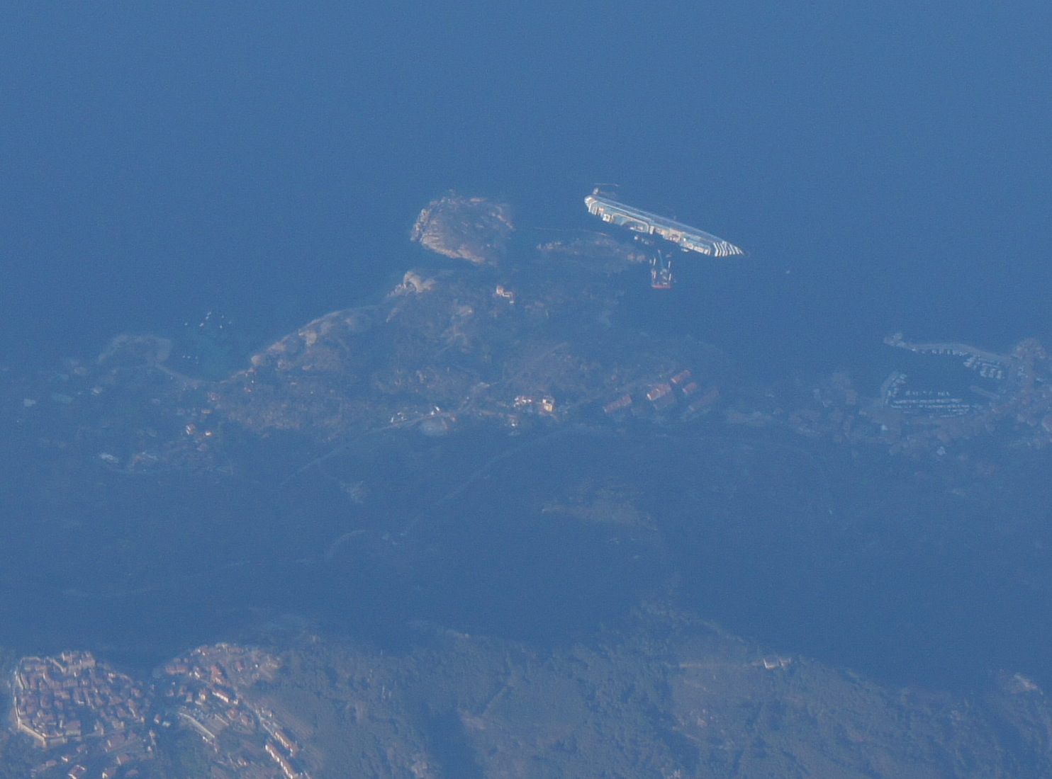 Wrack of Costa Concordia at Giglio port, view from plane